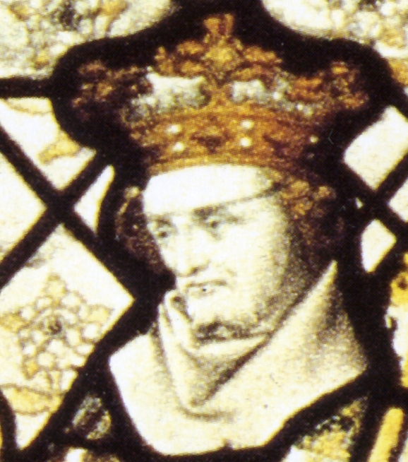 Athelstan, c.895-939. Detail of stained glass window, All Souls College Chapel, Oxford. Originally obtained from Warden and Fellows of All Souls, Oxford. According to [1], "The large stained glass window [containing this image] in the west wall is known as the Royal Window. Dating from the mid-15th-century but much restored, it was originally located in the Old Library of All Souls."